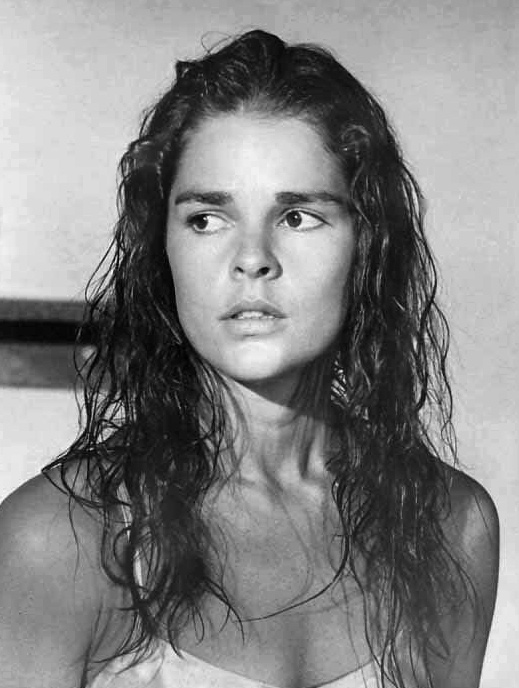 Publicity photo of Ali MacGraw in The Getaway, 1972.